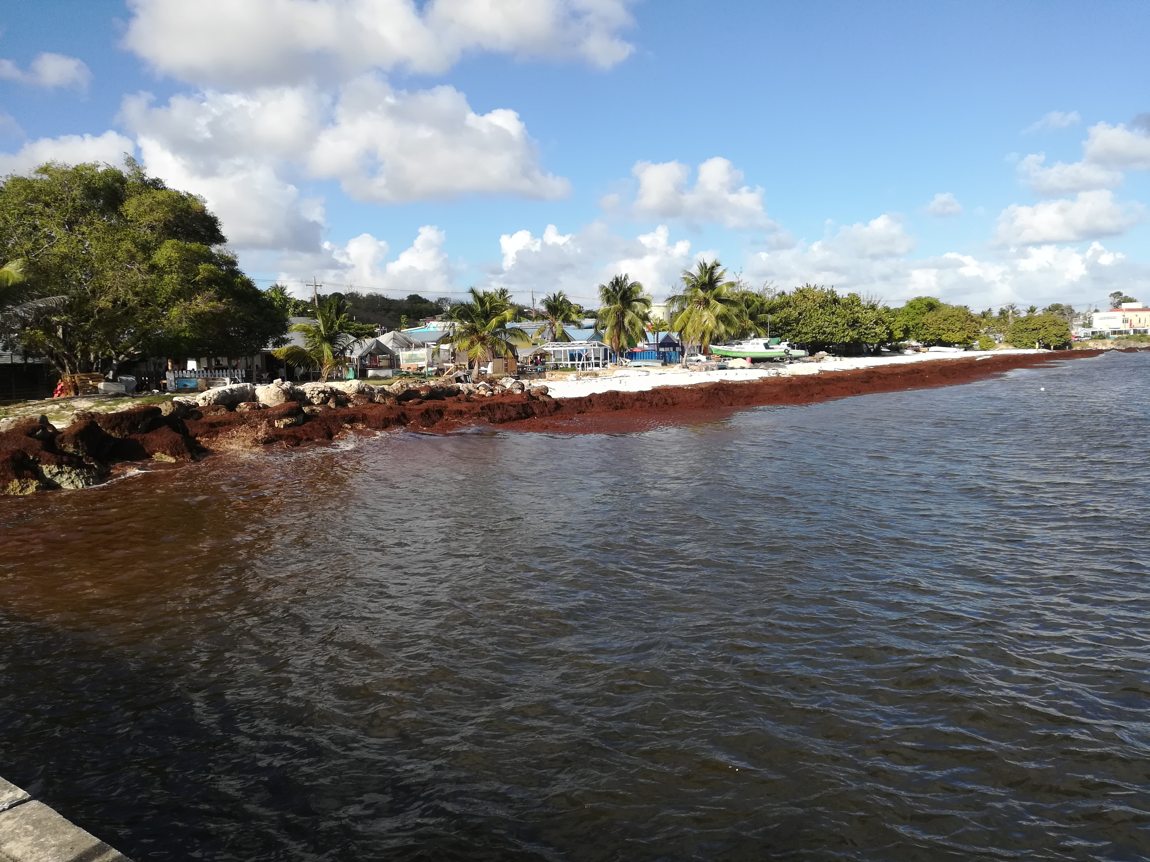 Oistins shoreline in Barbados, showing Sargassum invasion